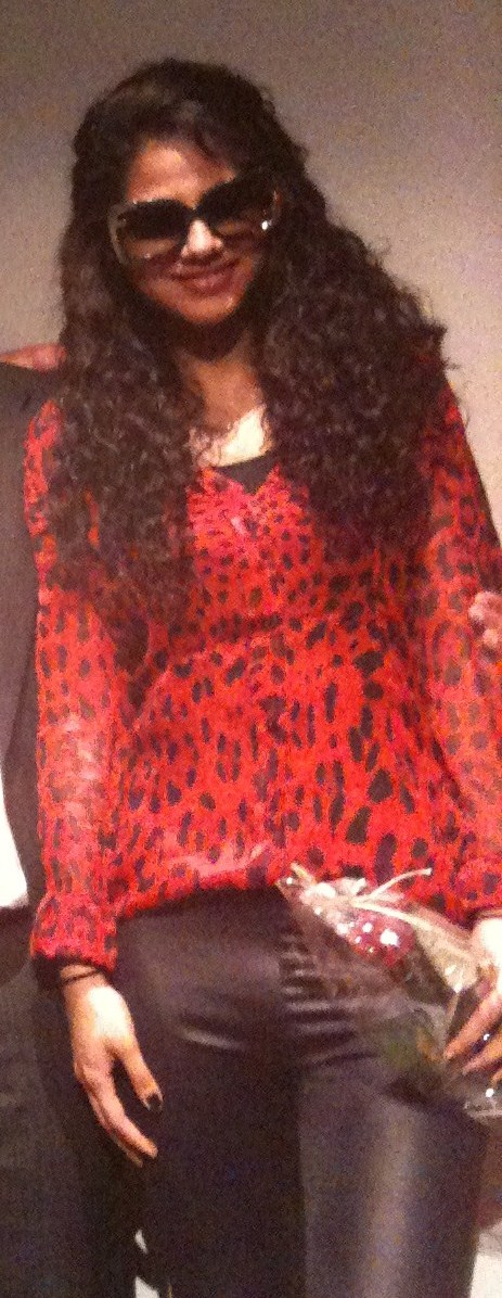 Singer Annie Khalid, after having performed in support of Pakistani flood victims. Oslo, 10 August 2010.